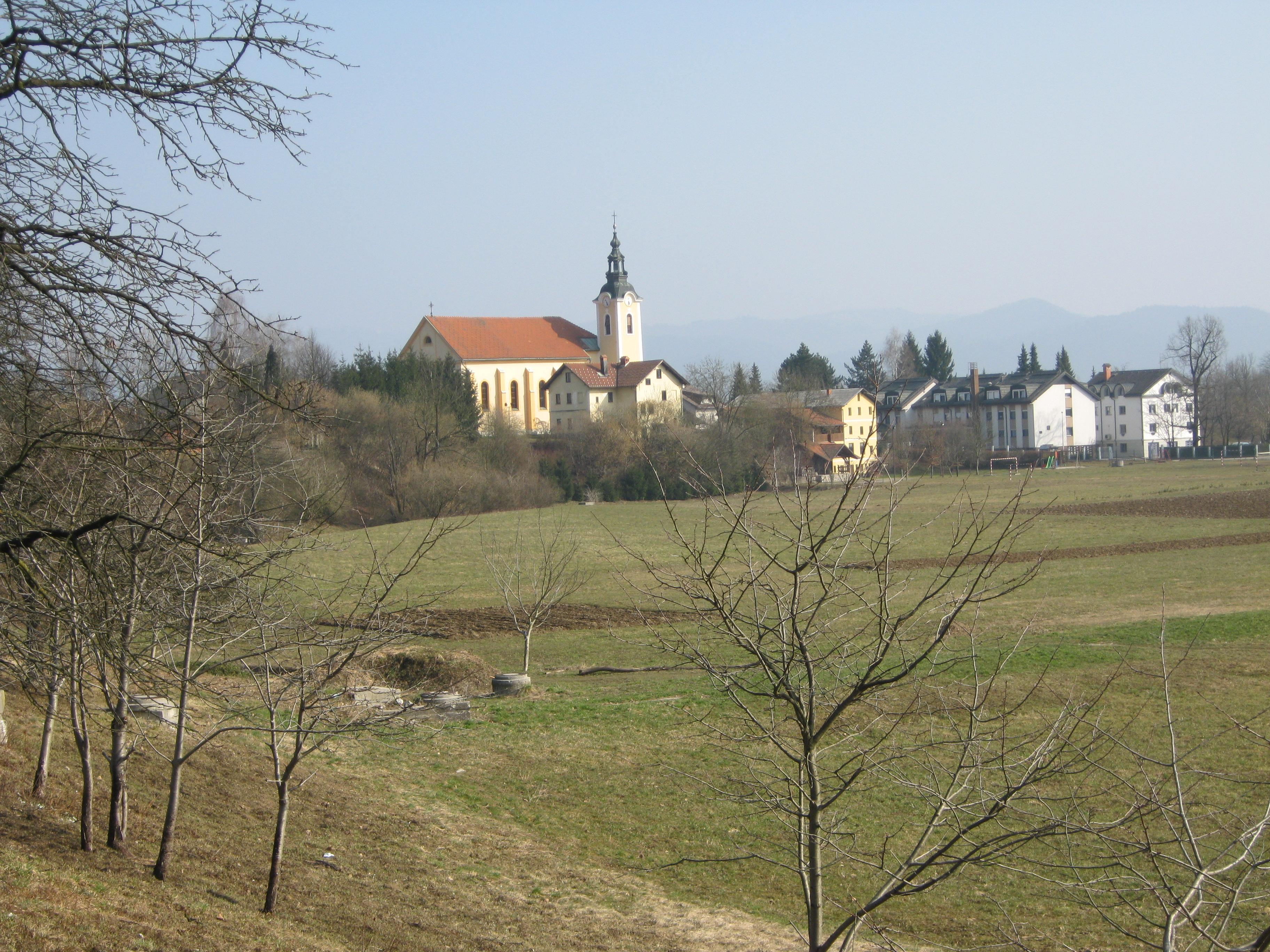 Church of St. Jakob in Šentjakob ob Savi.